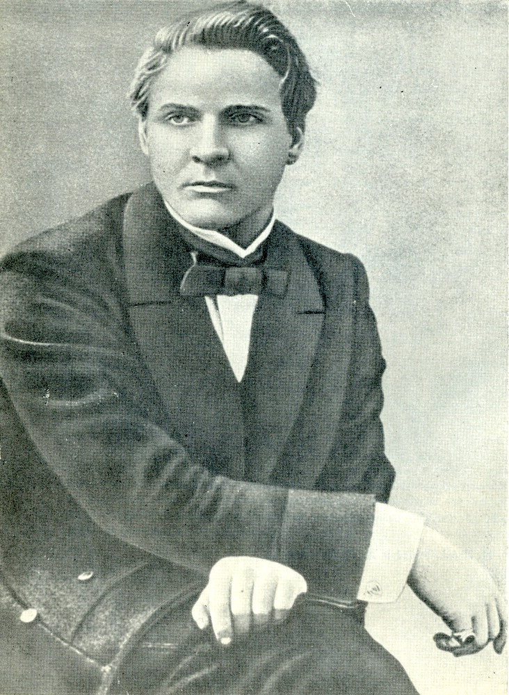 Russian bass, Feodor Chaliapin (1873 - 1938)